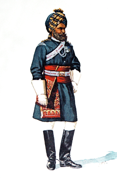 Risaldar Major of the 13th (Duke of Connaught’s) Bengal Lancers (now 6 Lancers, Pakistan Army) 1897. Painting by Chater Paul Chater.